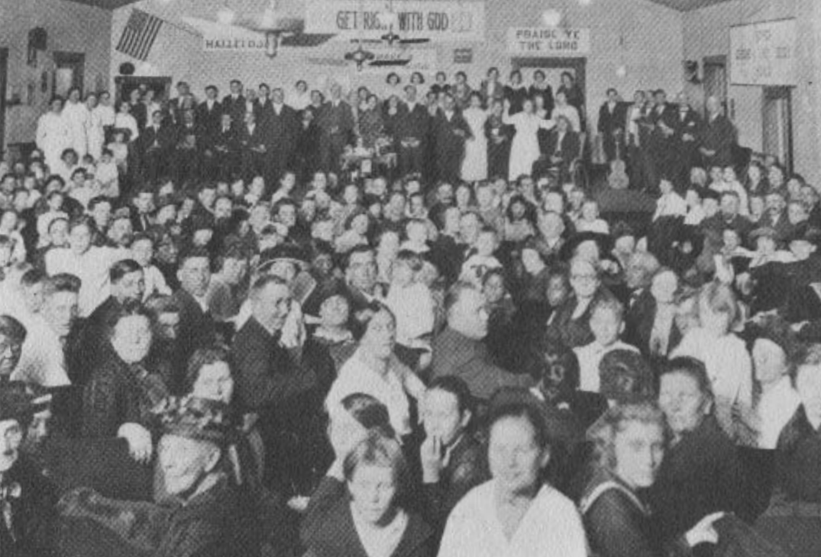 Interior view of Tabernacle of Maria Woodworth-Etter, Miller Street, Indianapolis, Indiana